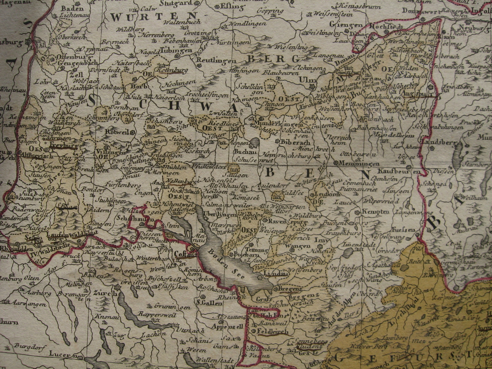 Portion of a map of the Austrian Circle showing (in light ochre colour) the many territories of Further Austria (Vorderösterreich) spread throughout Swabia and Vorarlberg. Published by Homann Heirs in 1788.